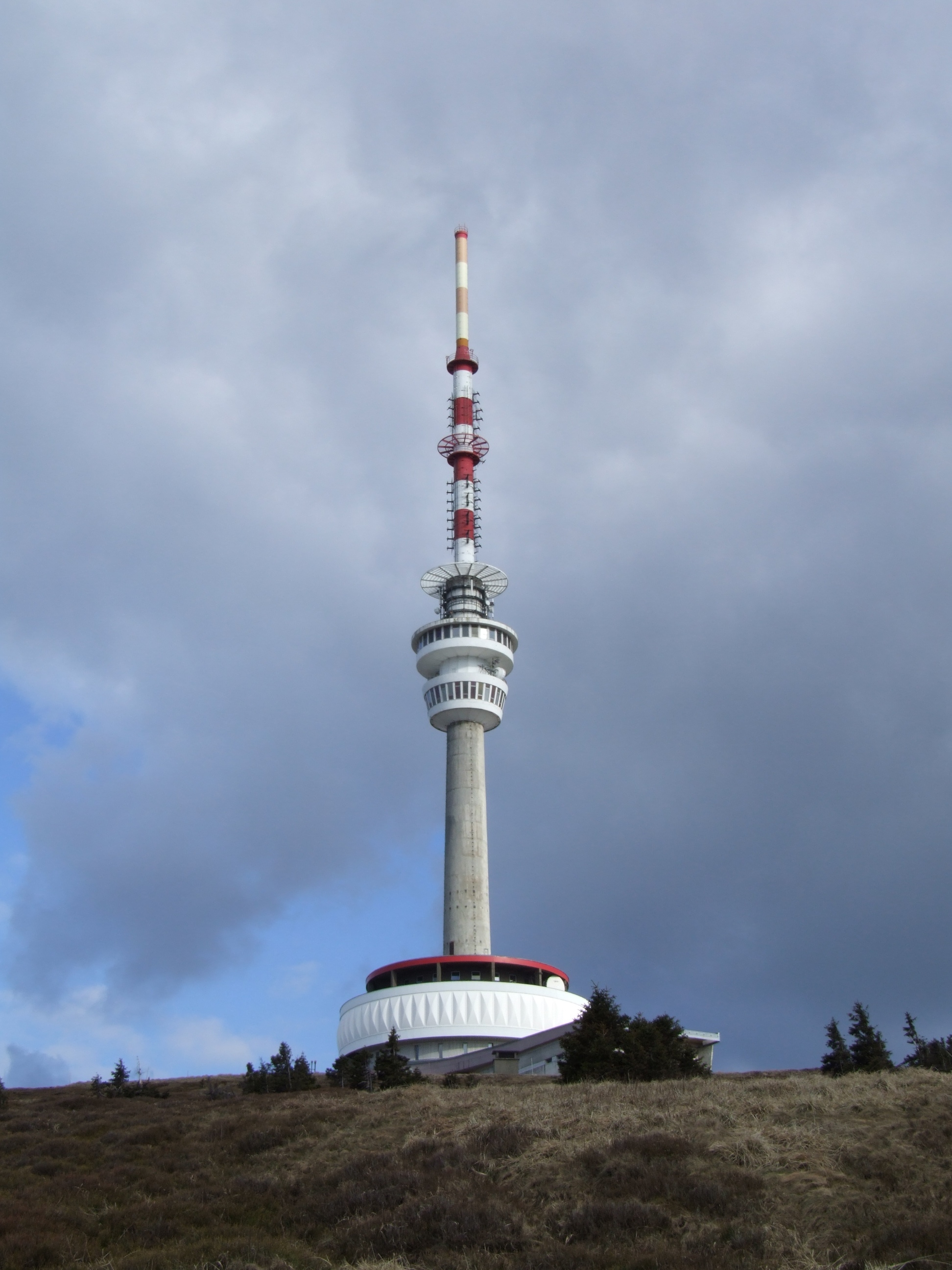 Observation tower on Altvater moutain (Praděd)